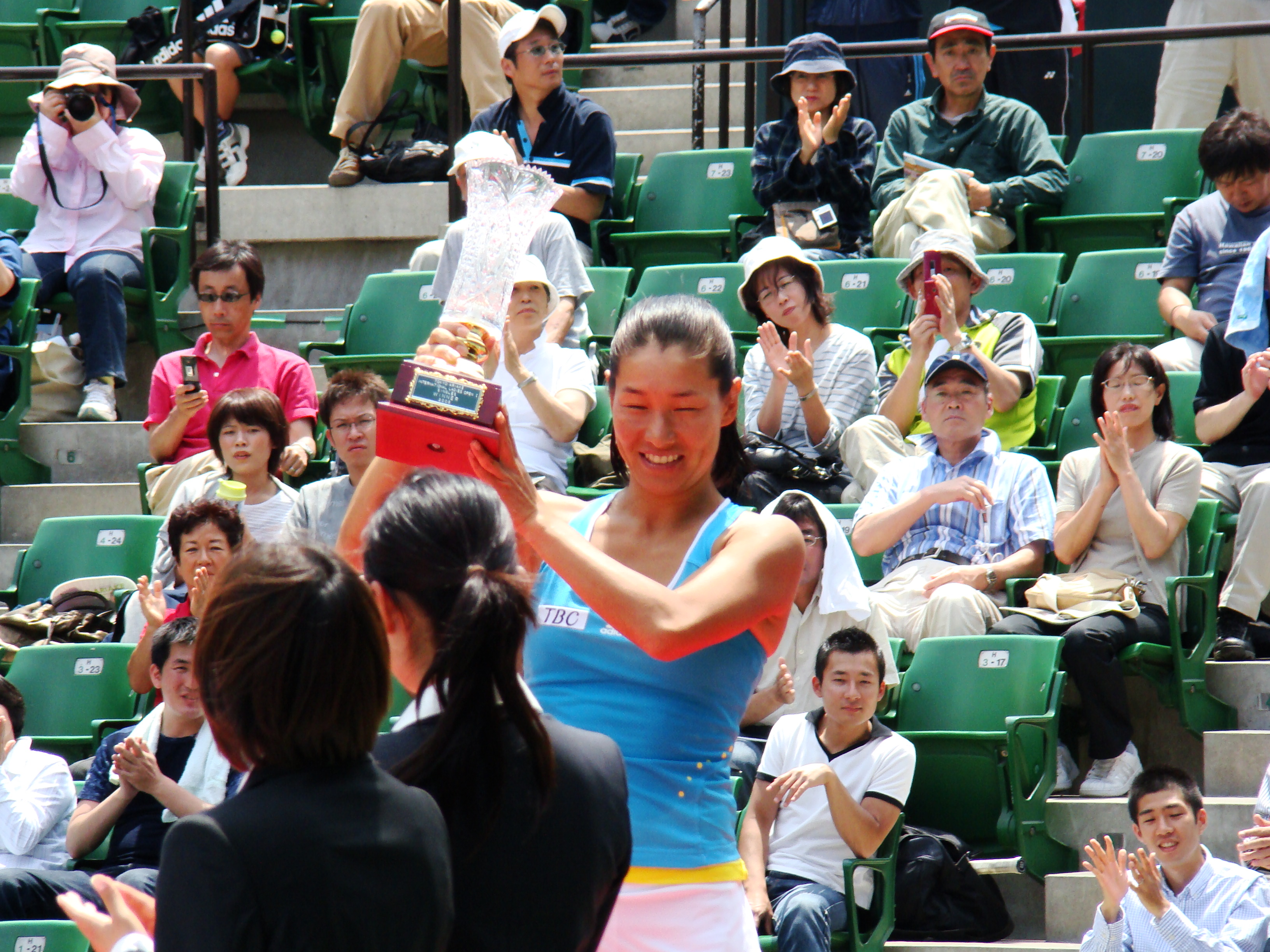 Kimiko Date, who came out of retirement after 12 years in 2008, holds the trophy for the 2008 Tokyo Ariake International Ladies Open aloft.